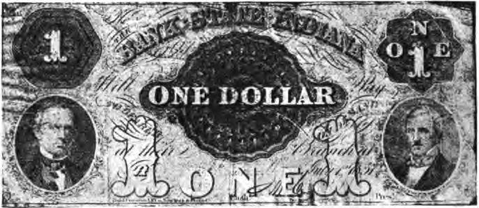 a $1 bank note from the Bank of Indiana (1833-1859), Jeffersonville Branch. The images portraits are left, Hugh McCulloch, president, and right, Samuel Merrill, cashier